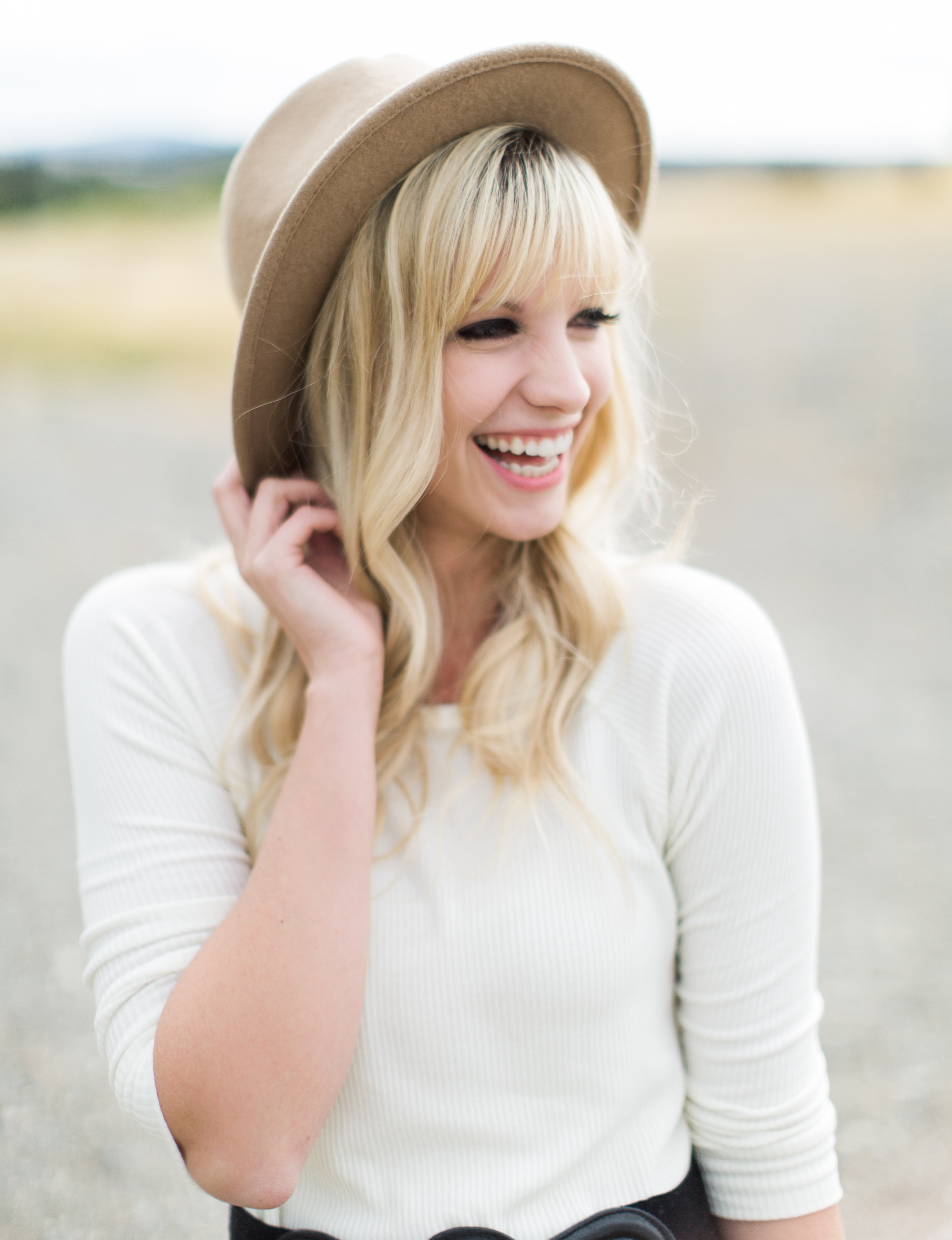 Crop of Cami Bradley.jpg